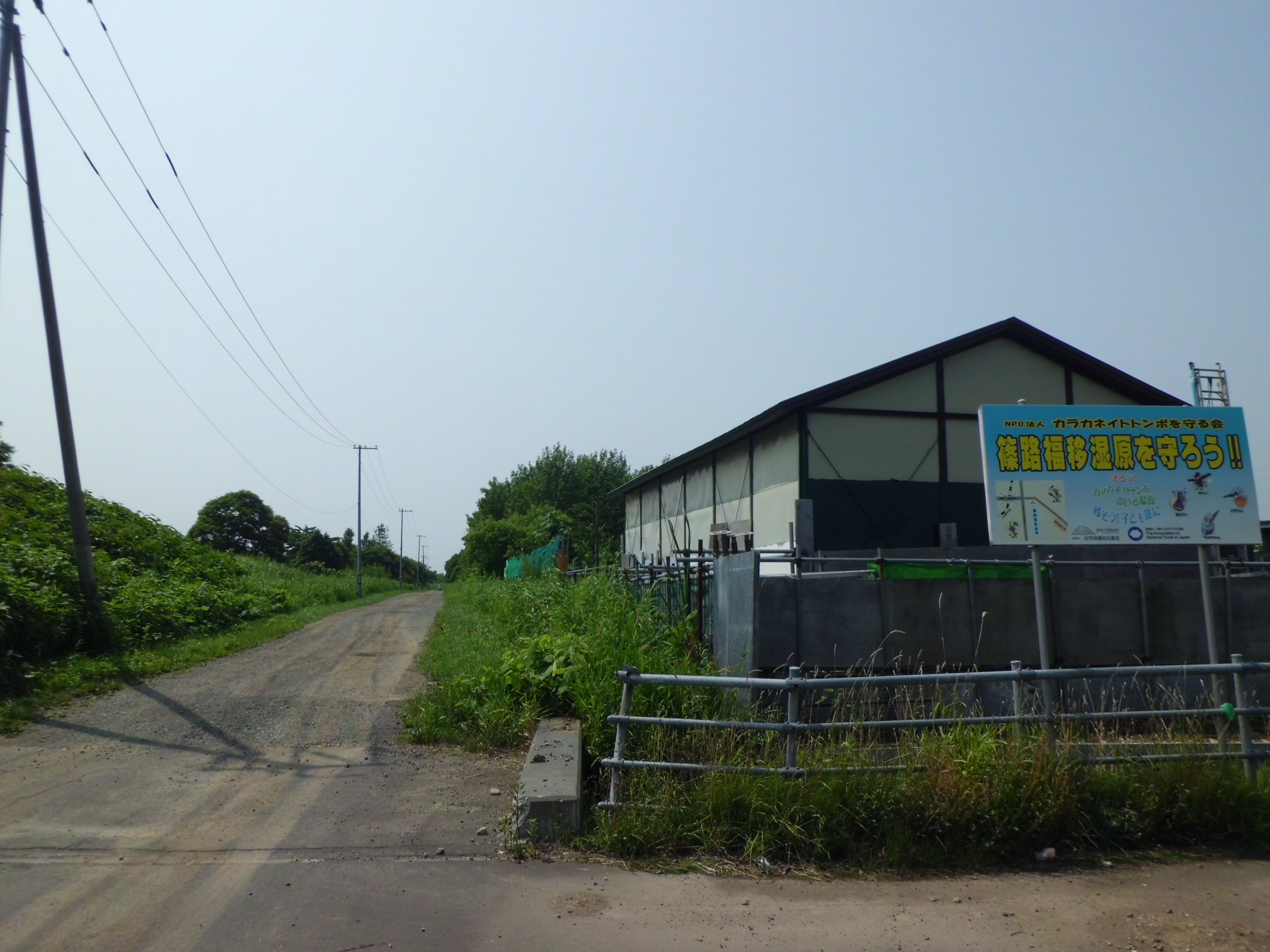 Entrance of Shinoro Fukui Wetland